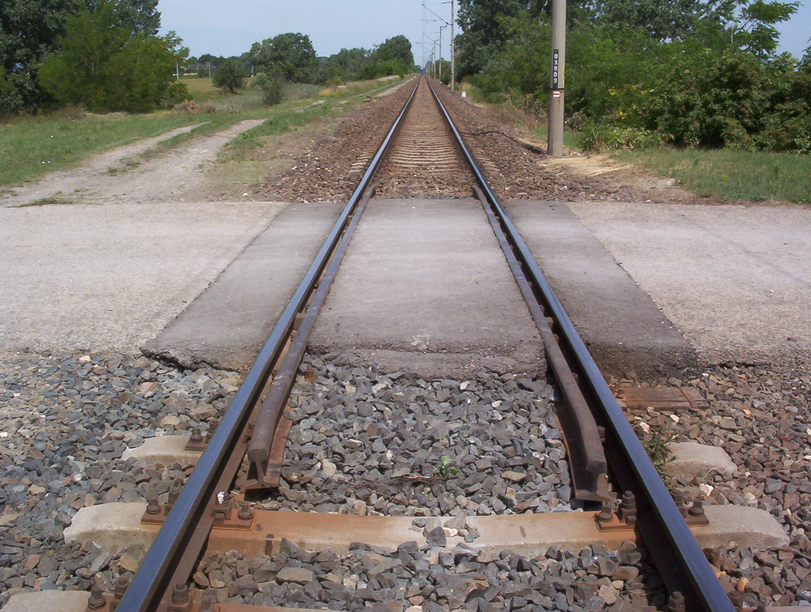 Level crossing made of asphalt on the Budapest–Kelebia railway line near Kiskunlacháza, Hungary.